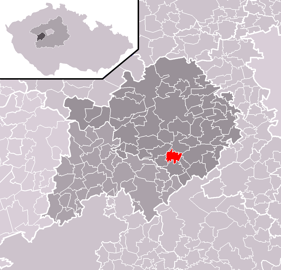 Location of Vinařice municipality within Beroun District and administrative area of Beroun as a Municipality with Extended Competence.